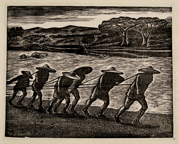 Luo Qingzhen,Going Against the Current,1935,12.9×16.3cm,black-white woodblock